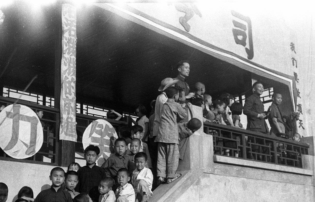 Gannan during the early 1940s. Chiang Ching-kuo was appointed as commissioner of Gannan Prefecture (贛南) between 1939 and 1945.